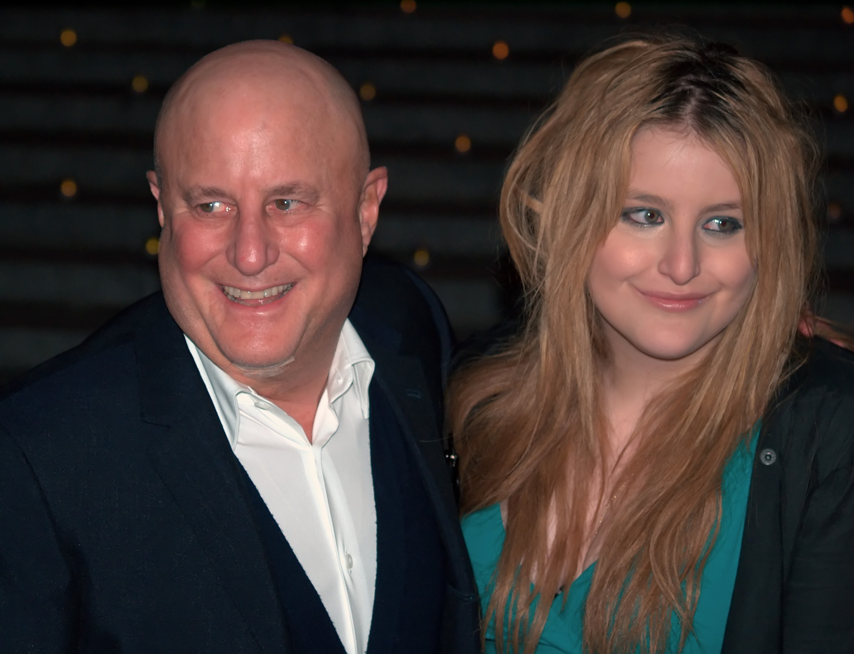 Ronald Perelman and Samantha Perelman at the Vanity Fair kickoff part for the 2009 Tribeca Film Festival.